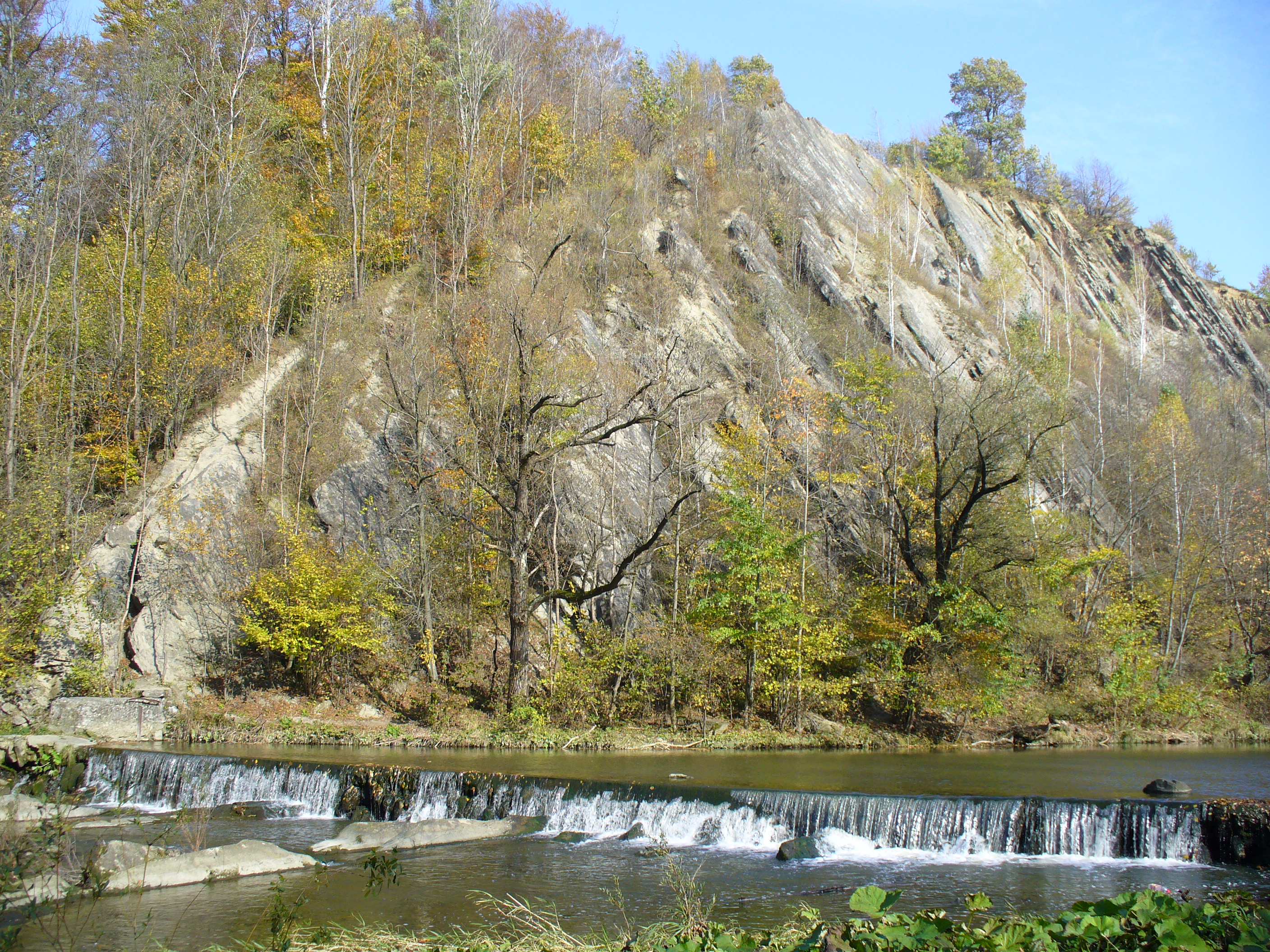 Besko